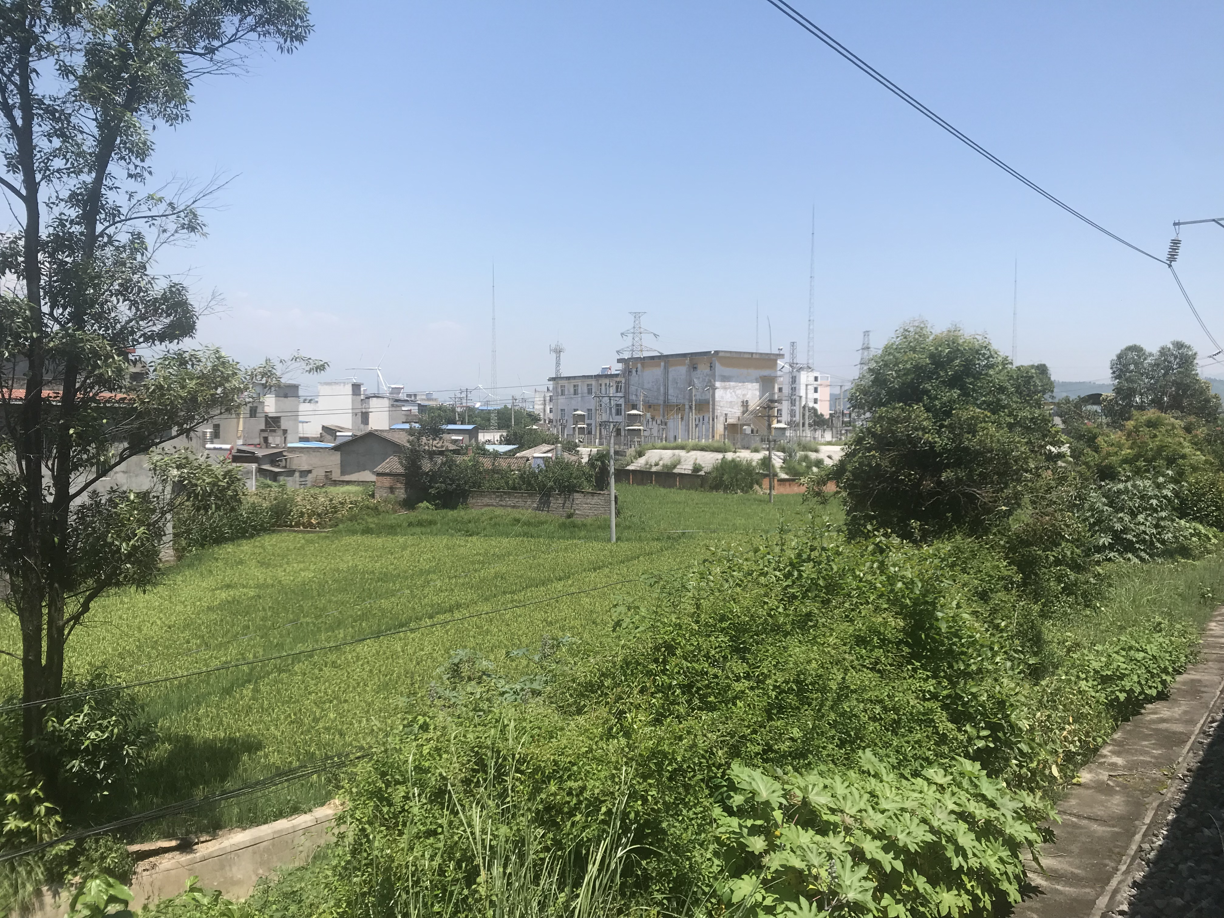 201908 Xinzhen Village, Huanglianguan